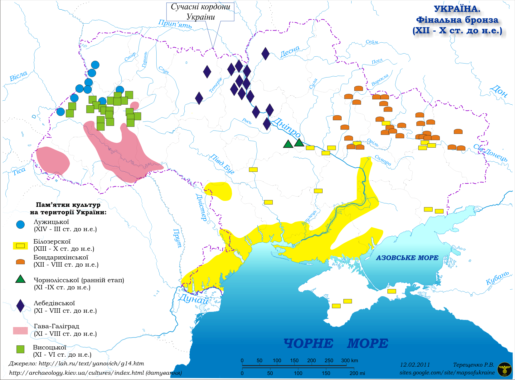 The final bronze in Ukraine (the end of the second millennium BC.). Belozerskaya culture.